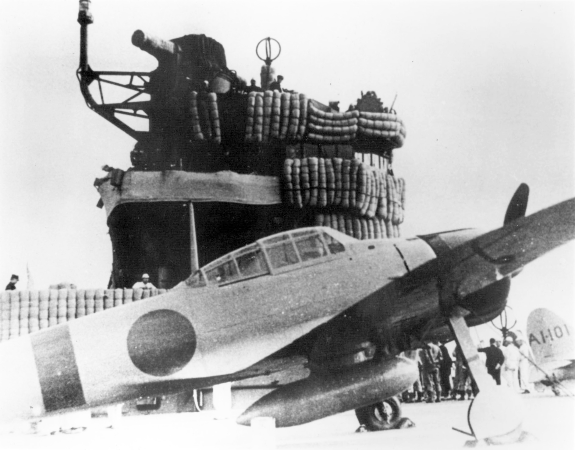 An Imperial Japanese Navy Mitsubishi A6M2 "Zero" fighter on the aircraft carrier Akagi during the Pearl Harbor attack mission.